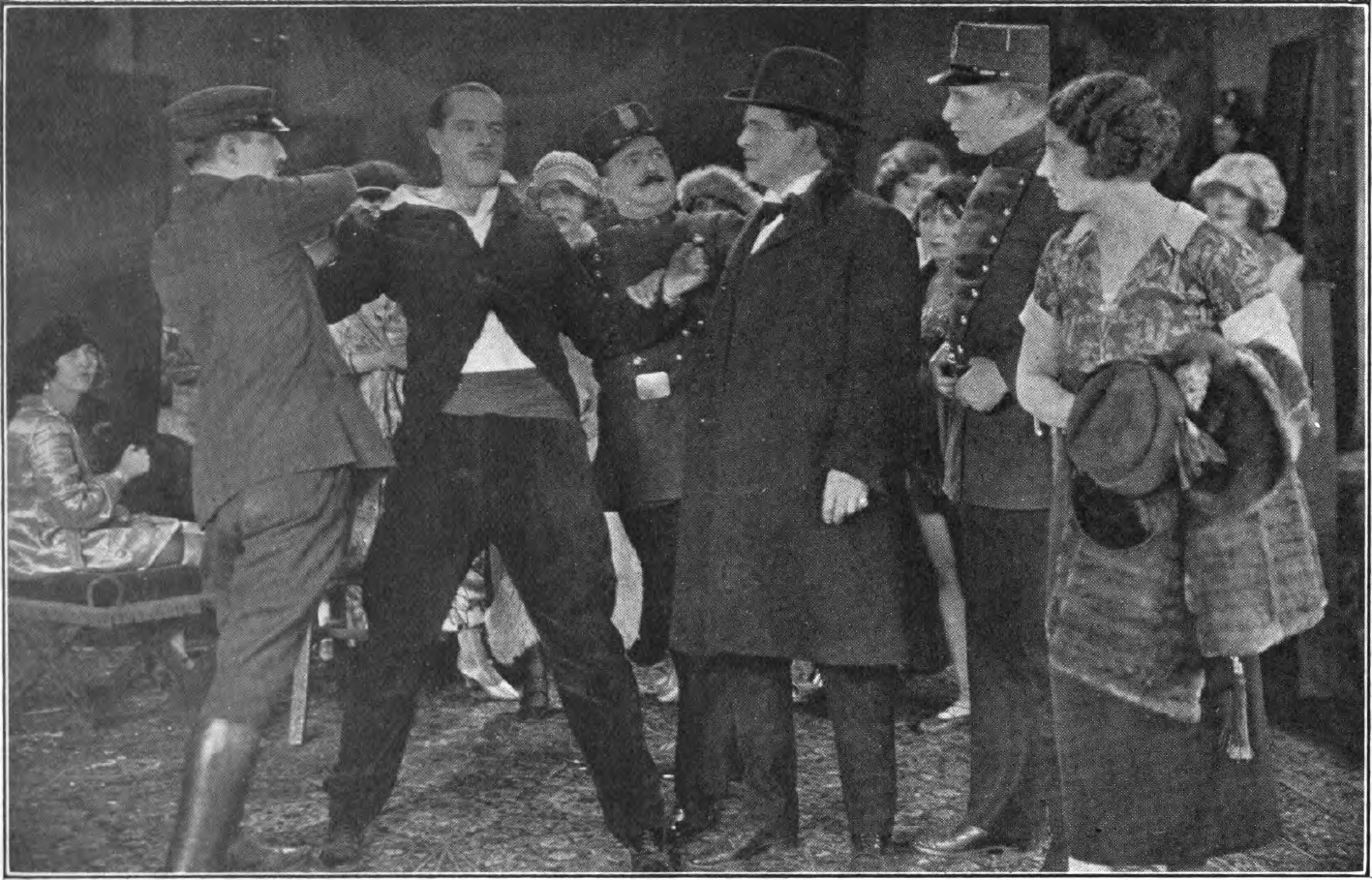 Photoplay edition, still from the film The Lone Wolf (1917). Frontispiece of the novel. Caption: "The Lone Wolf recoils when faced by sergeants de ville in the studio of an artist friend."